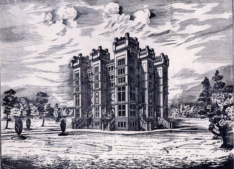 Image of Jezreel's tower c 1884 in family collection bequeathed to me